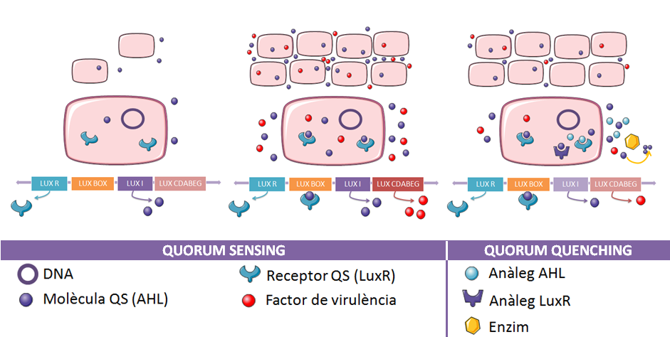 Diagram explaining the functioning of quorum quenching.